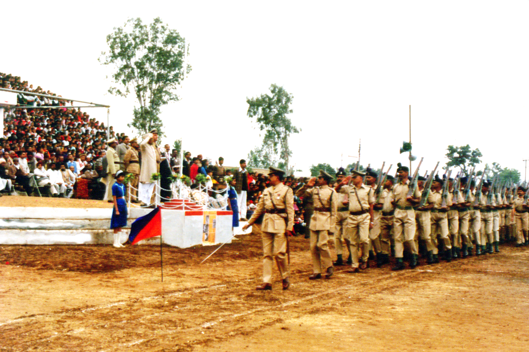 Pandit Ram Kishore Shukla observing Independence Day march in 1987